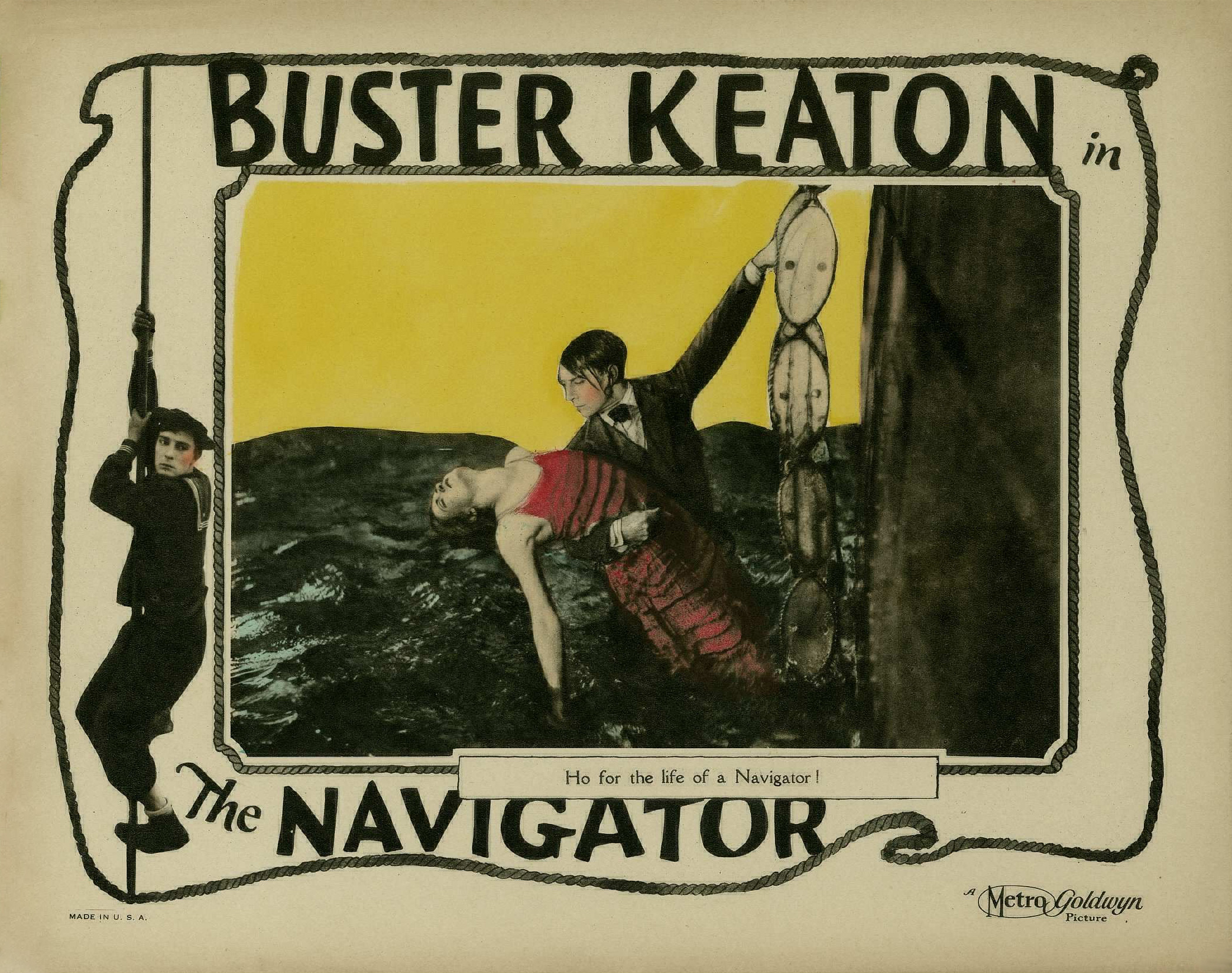 Poster for the 1924 Buster Keaton vehicle The Navigator